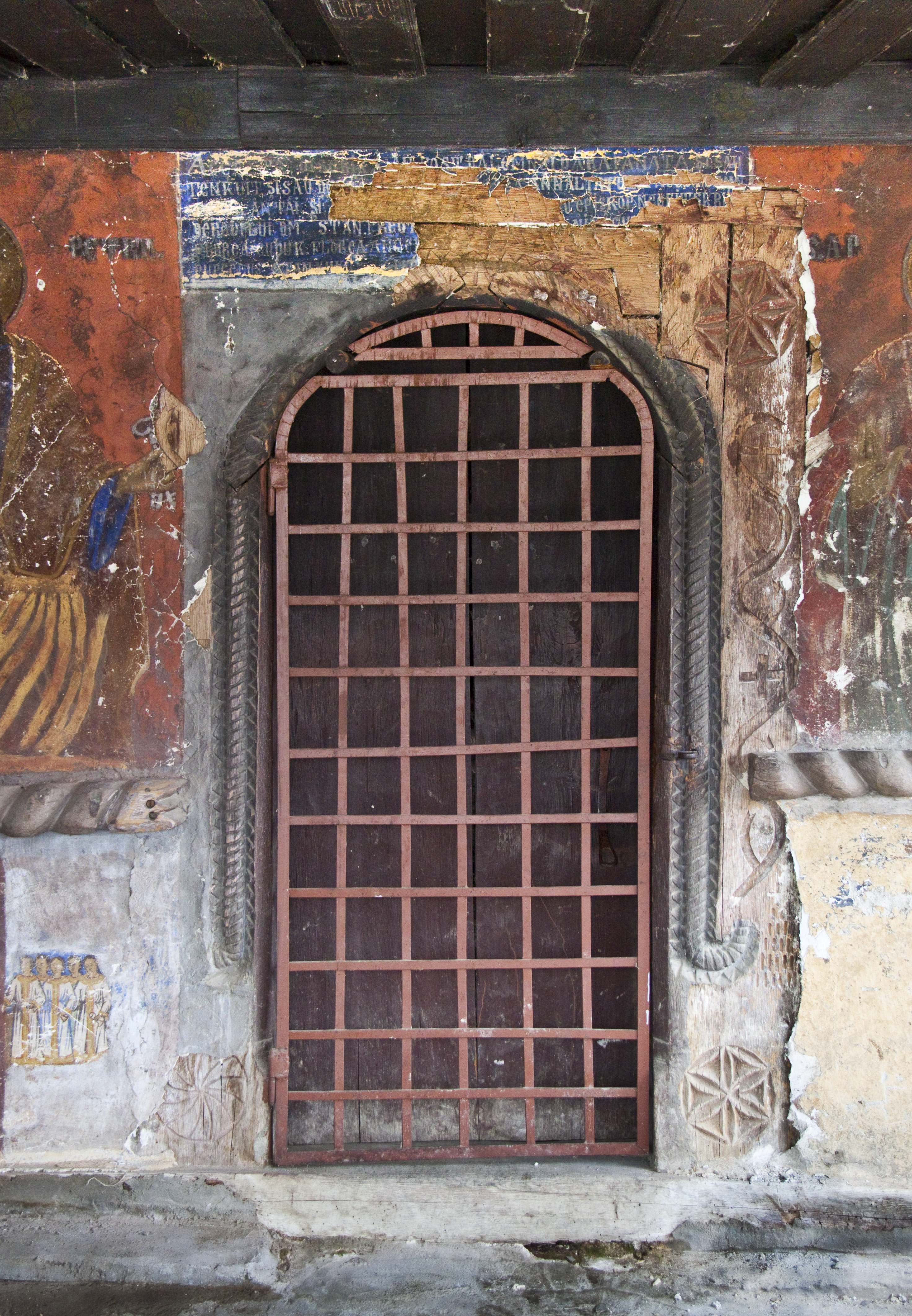 Topliţa, Argeş county, Romania: the wooden church.